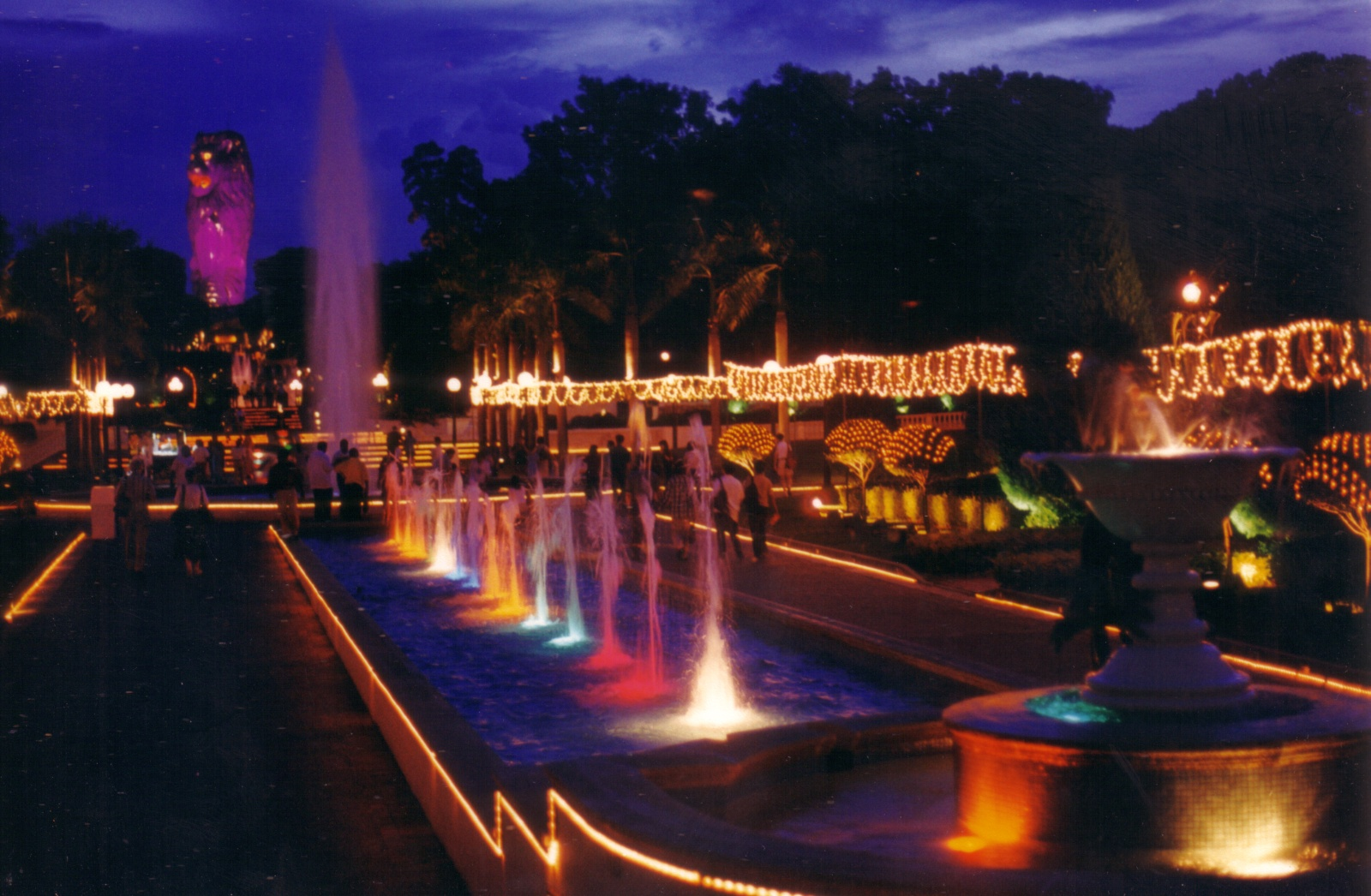 The illuminated Sentosa Fountain Gardens — formerly located in the centre of Sentosa Island, in Singapore. They were promenade gardens between the ferry dock and the Sentosa Musical Fountain show, in the Imbiah Lookout zone. Demolished in 2007 for an expanded new resort. As captured in September 1999. This picture was taken with a Canon EOS Rebel (S II or G).